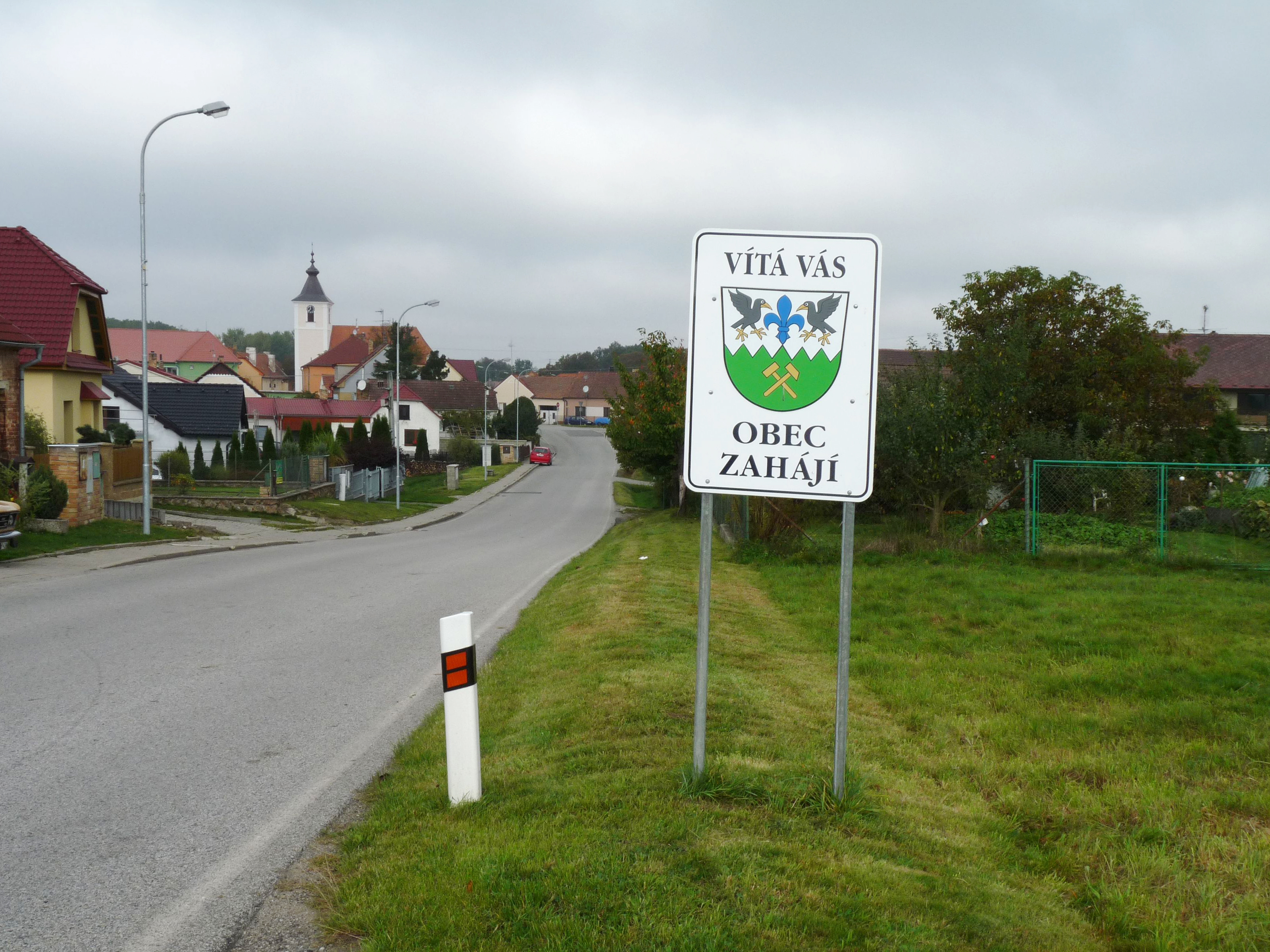 Welcome sign of the village of Zahájí, České Budějovice District, South Bohemian Region, Czech Republic.